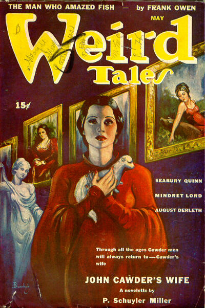 Cover of the pulp magazine Weird Tales (May 1943, vol. 36, no. 11) featuring John Cawder's Wife by P. Schuyler Miller. Cover art by Margaret Brundage.